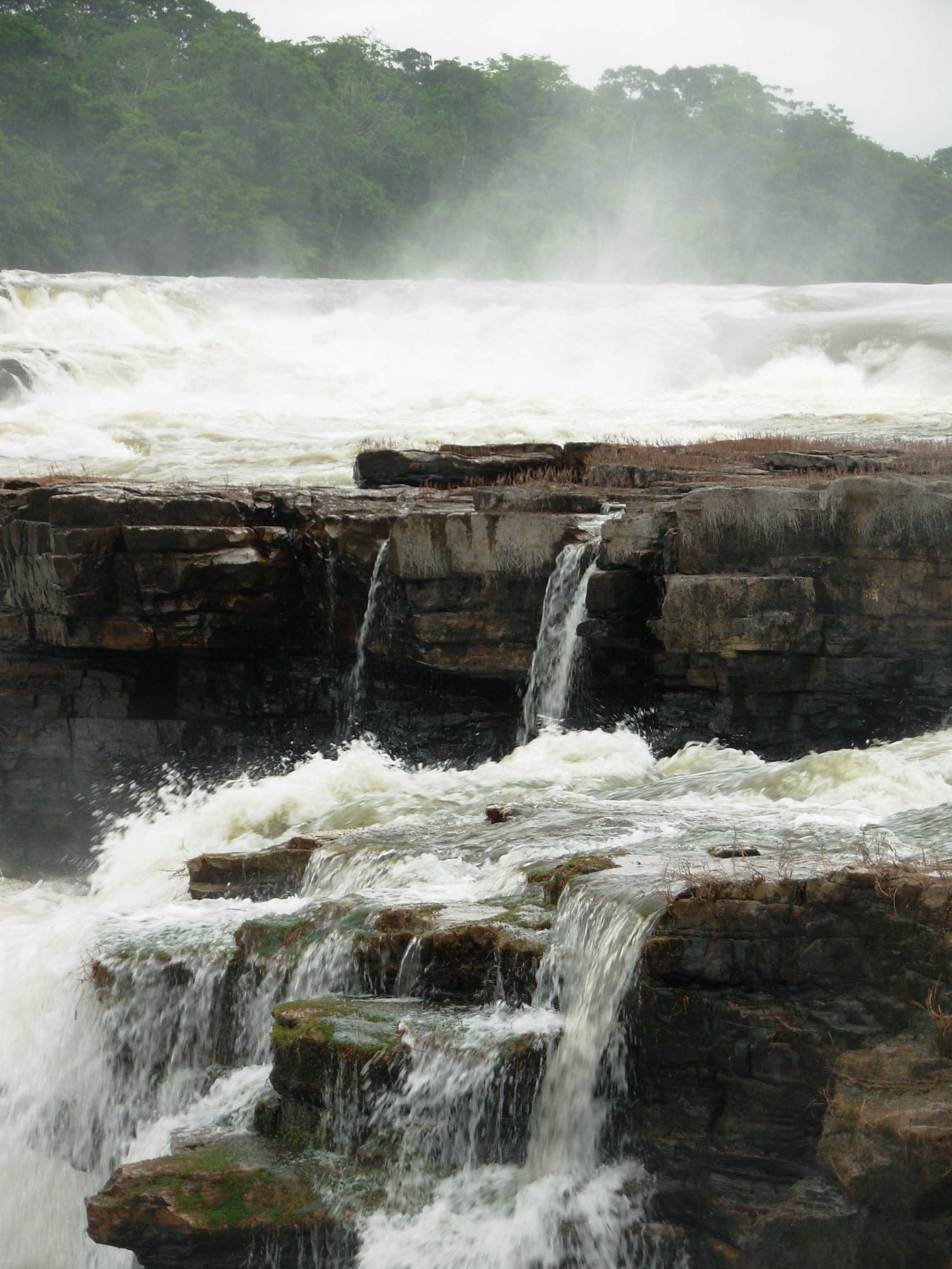 Parque Nacional do Juruena - Salto Augusto